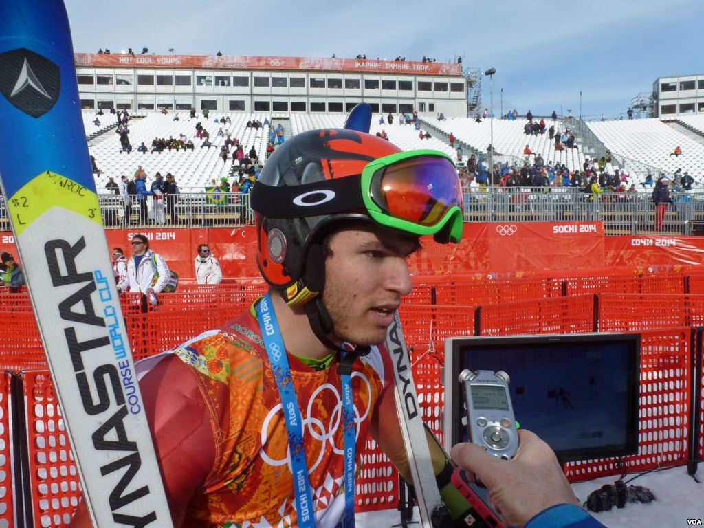 Adam Lamhamedi, the Moroccan skier who finished 47th in the Giant Slalom, Feb 19, 2014 (VOA - P. Brewer)